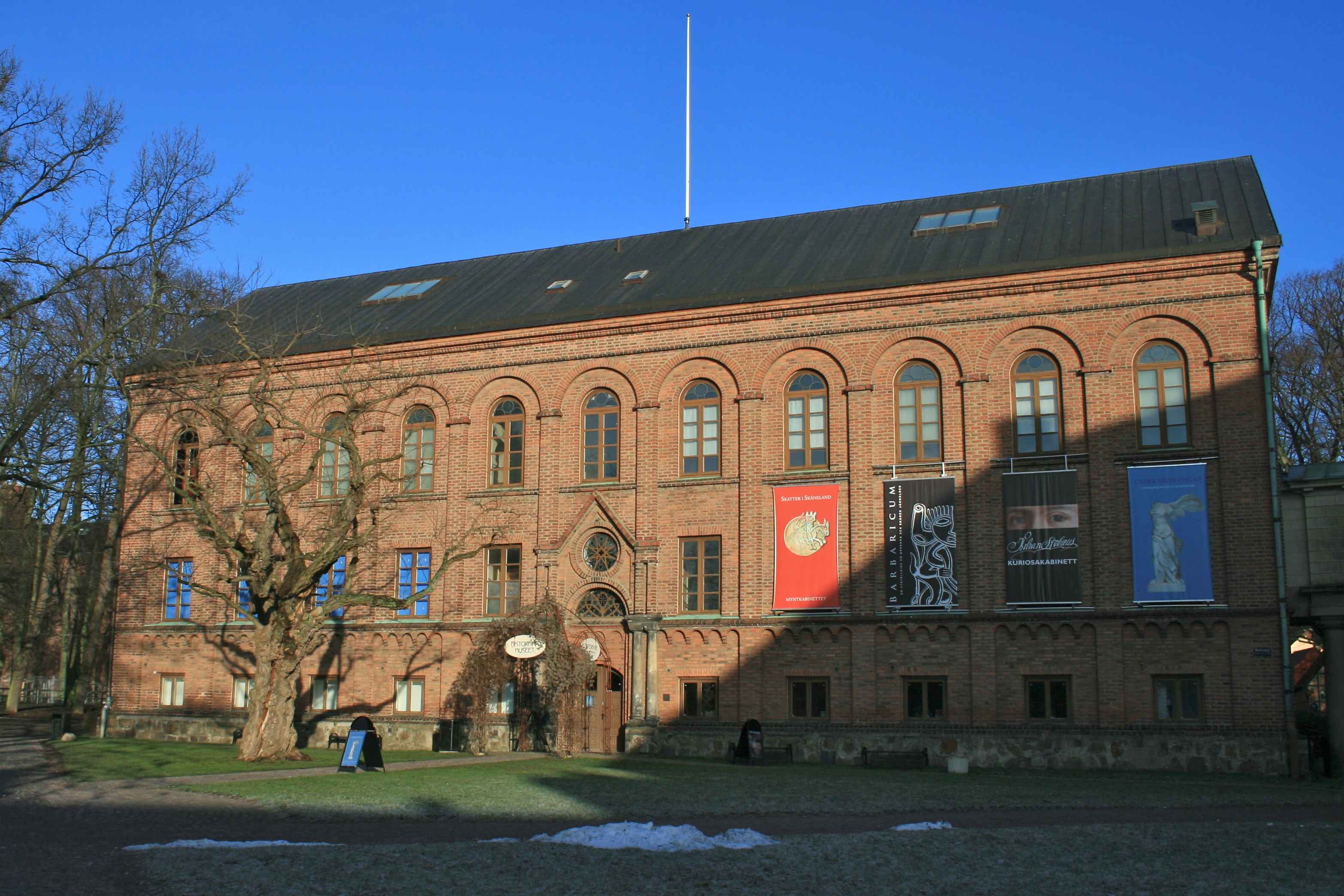 The Historical museum in Lund.